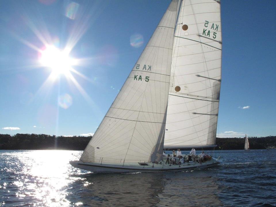 The 12 metre yacht Australia (KA-5) under sail.